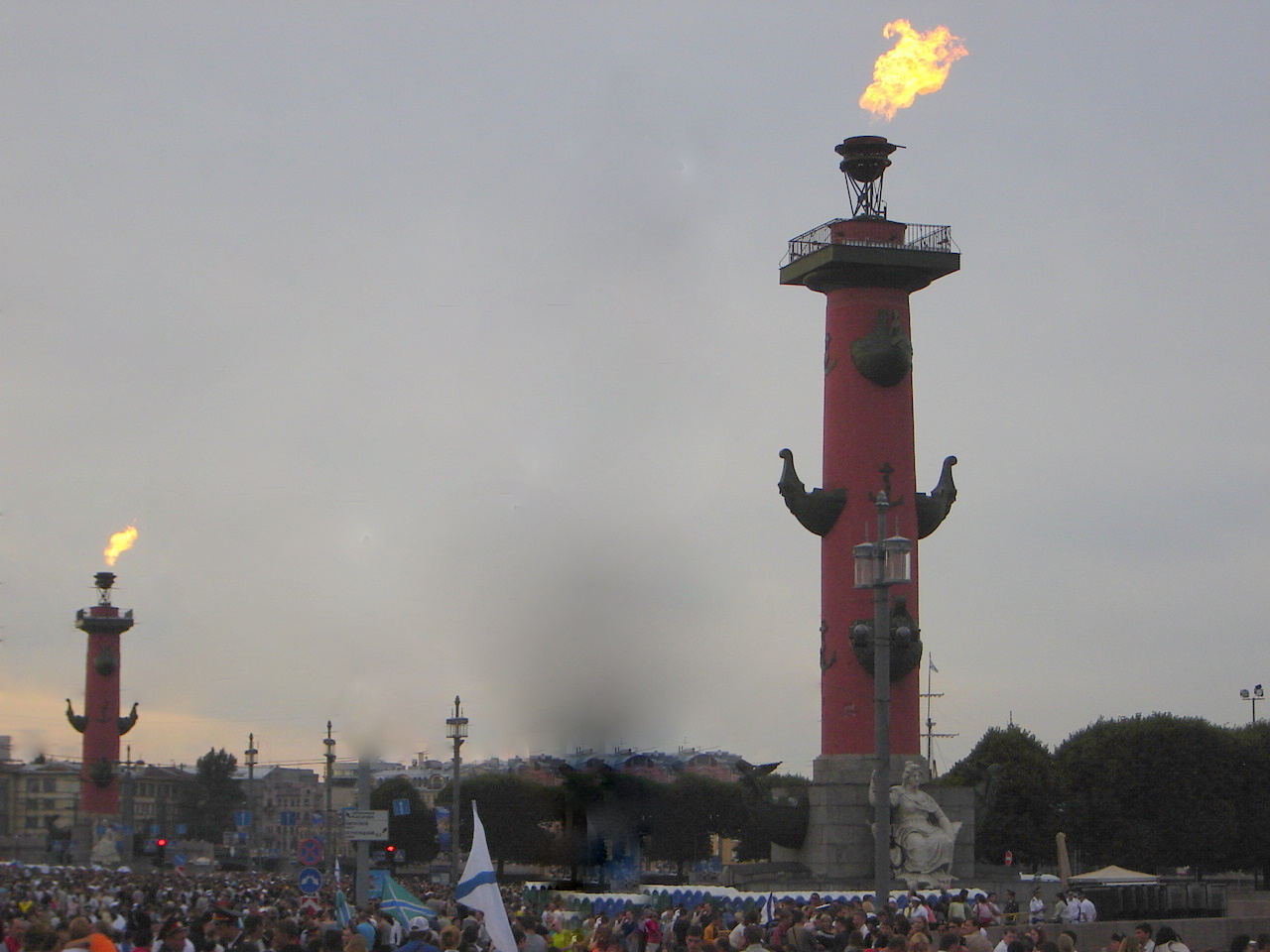 Rostral Columns